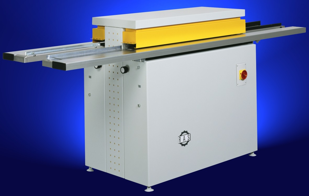 Falzformer SpeedySeamer RAS 22.09